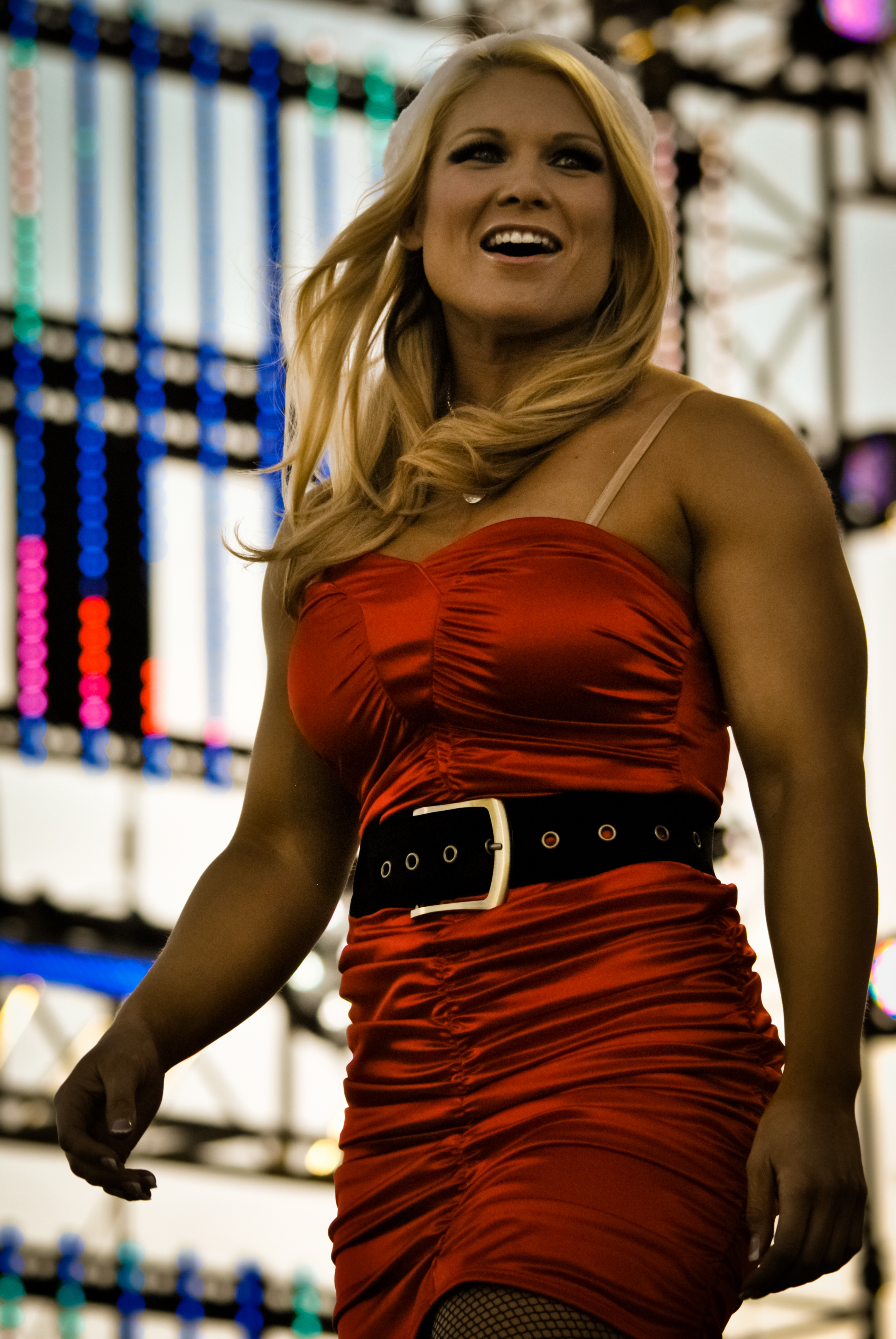 Beth Phoenix at WWE's Tribute to the Troops event on December 11, 2010 in Fort Hood, Texas.